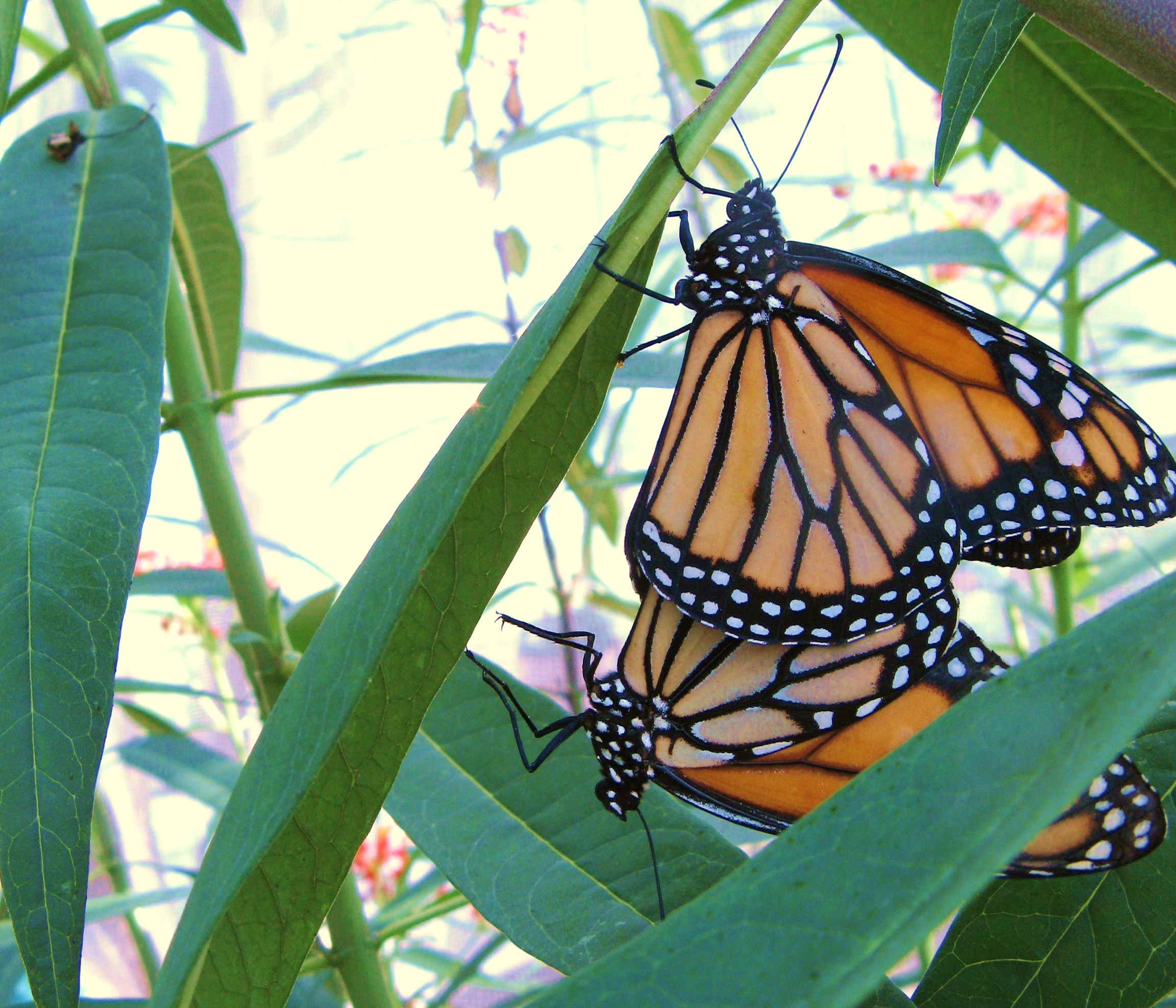 A pair of Monarchs mating. The female in the photo was seen depositing eggs for the next several days.